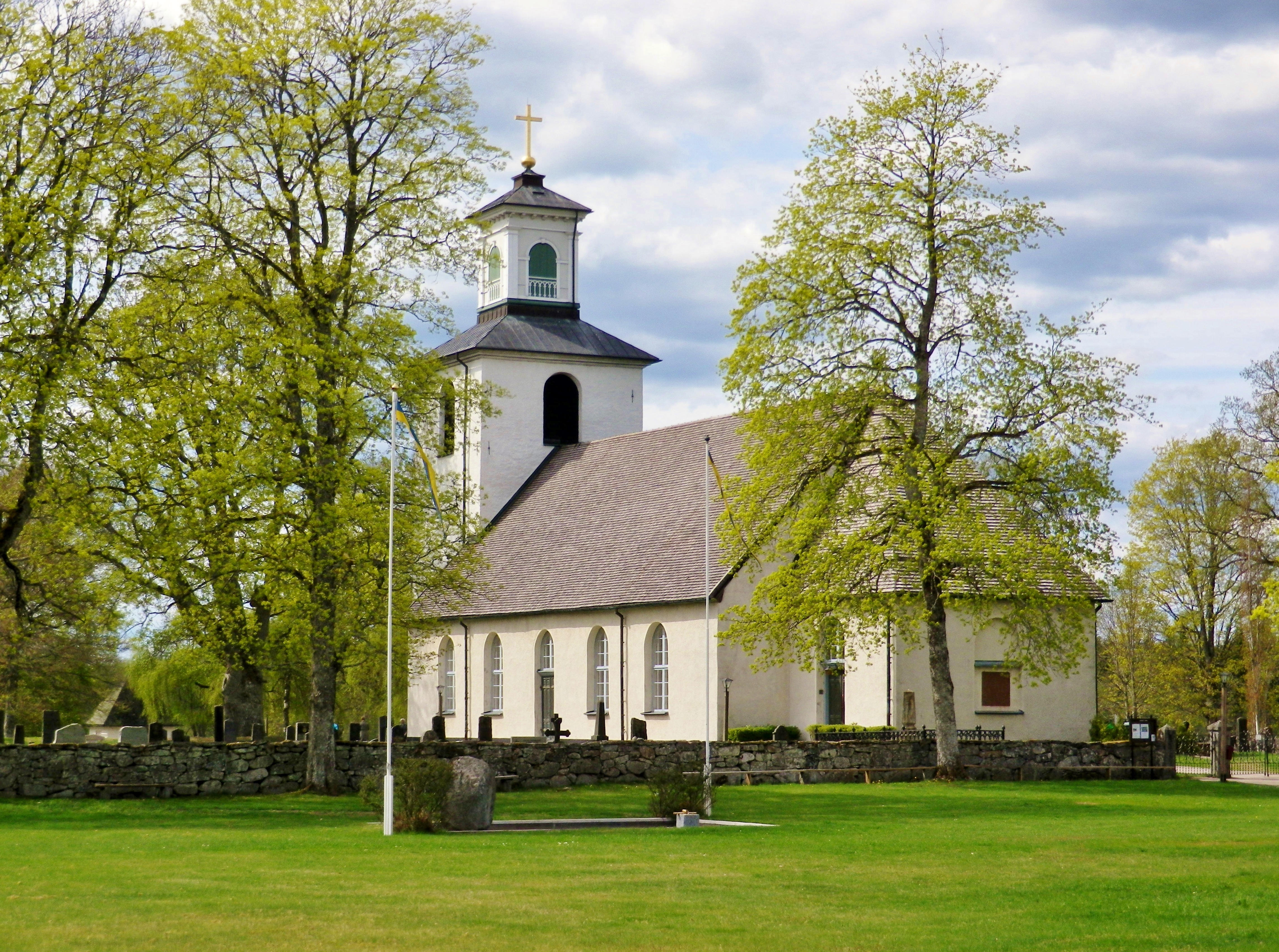 Långasjö Church. The Church was preceded by a medieval stone church on the same site. 1775 it was decided that the Church would be built. 1779 was drawn up blueprints to a church in neo-classical style of the Later Church, built in 1789 and 1794 was inaugurated by Bishop Olof Wallquist.